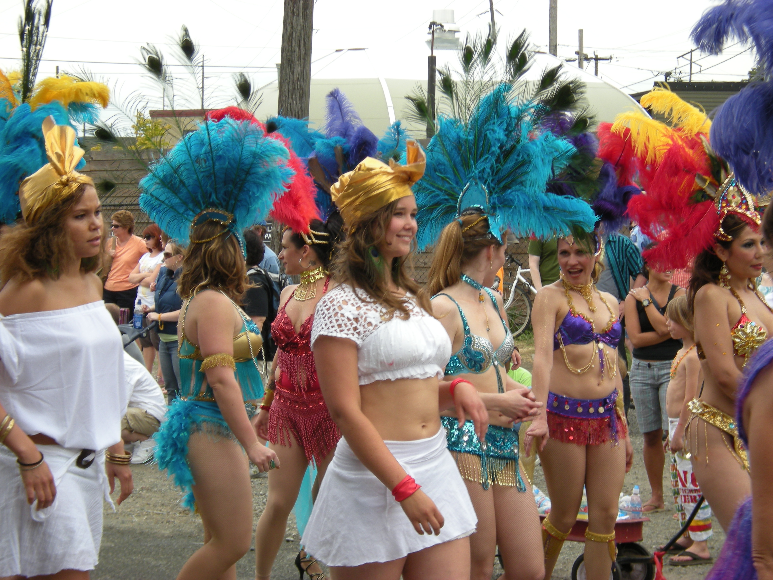 Samba dancers, 2008 Summer Solstice Parade, Fremont Fair, Seattle, Washington.